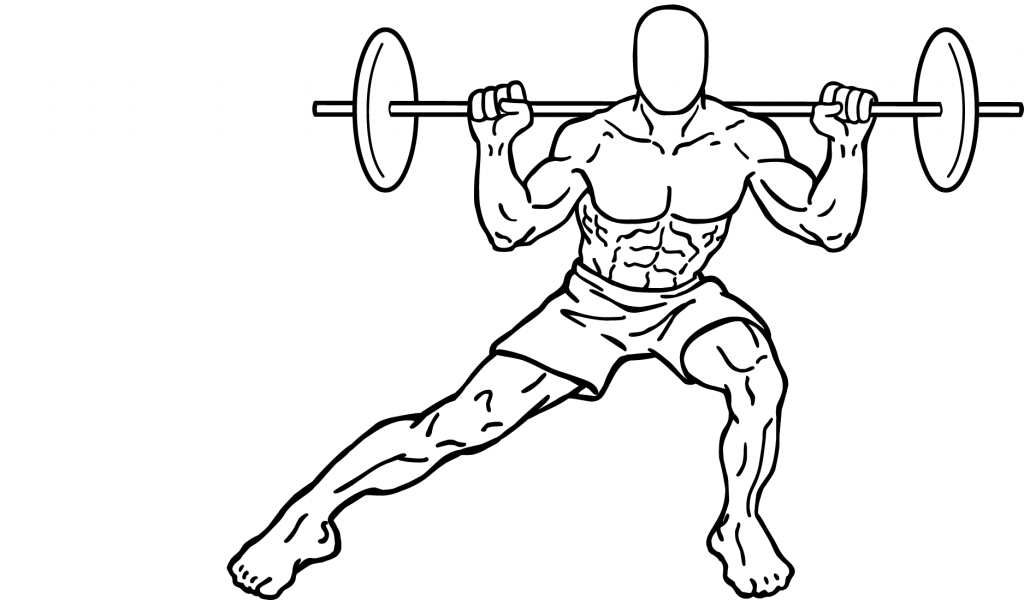 an exercise of thigh